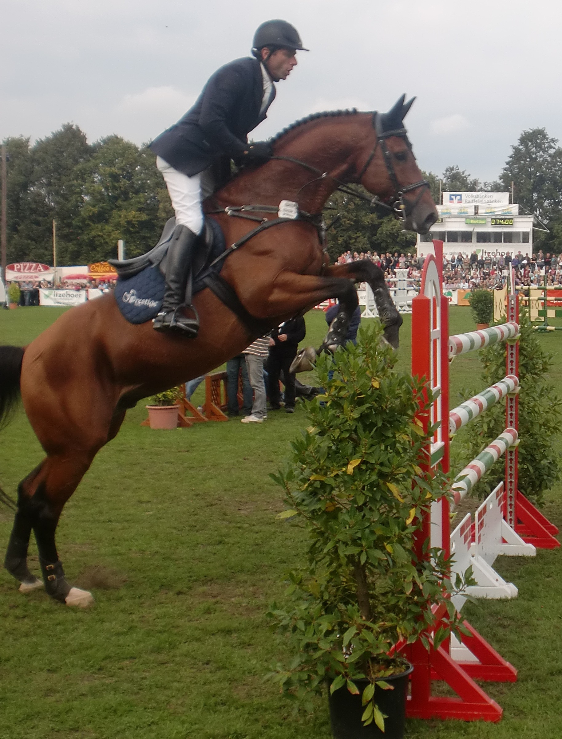 Carsten-Otto Nagel and Lex Lugar, Landesturnier Schleswig-Holstein / Hamburg (state championship of Schleswig-Holstein and Hamburg in Bad Segeberg, September 2010